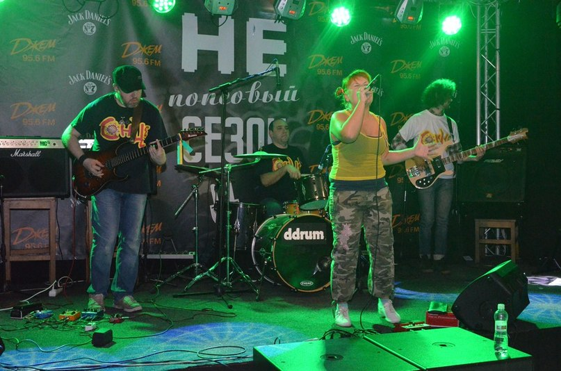 SonCe band perfoming at the scene